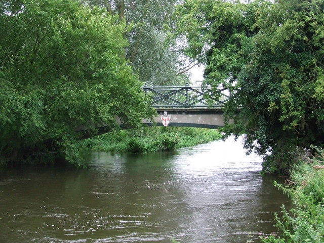 Homersfield Bridge in Suffolk is the oldest concrete bridge in Great Britain. It was built in 1870 and restored in 1995.